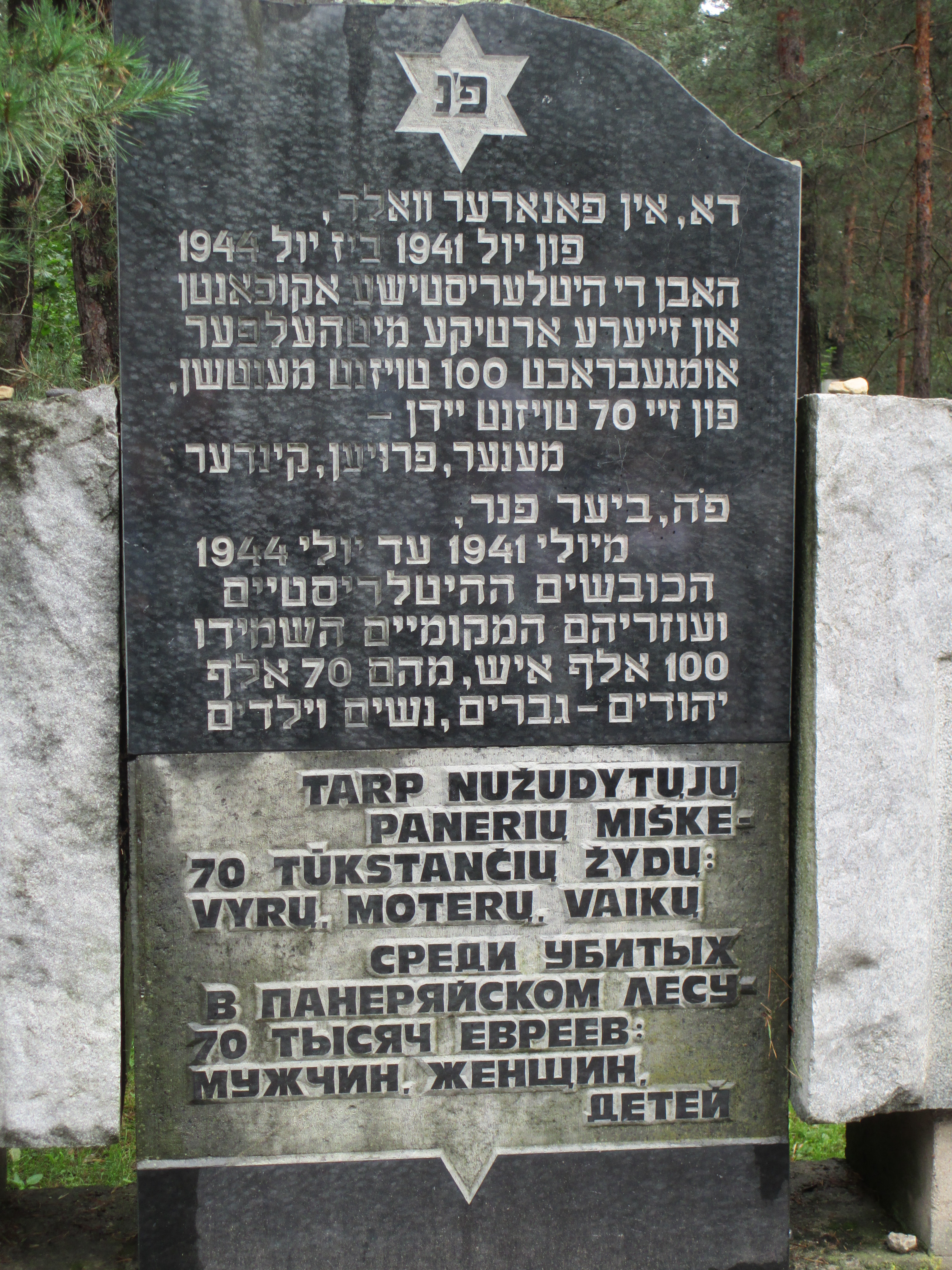 memorial plate at the entrance to ponar forest